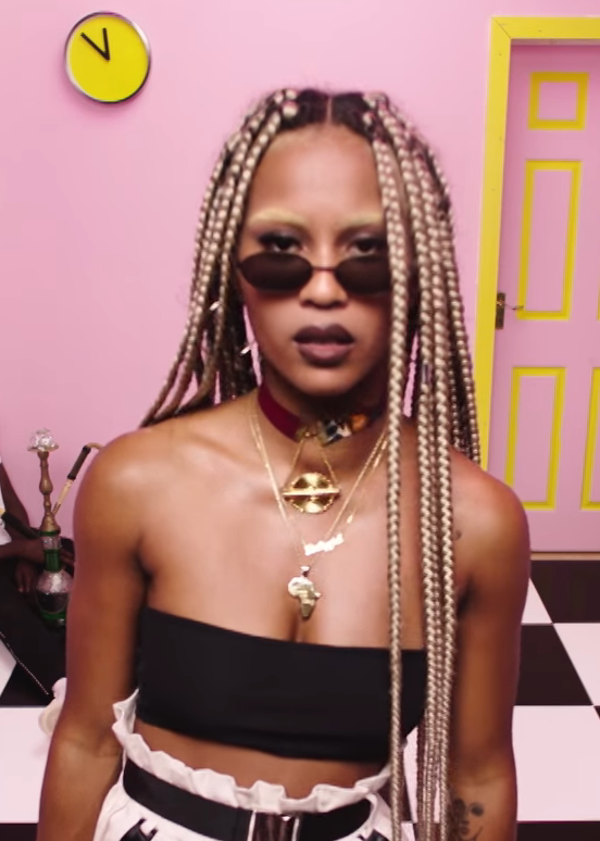 IAMDDB performing "Watrfall" for YO! MTV Raps